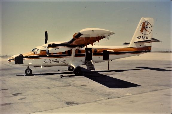 Manufacturer: de Havilland Canada Designation: DHC-6 (Twin Otter) Airline: Sun Valley Key Serial Number: N26KA